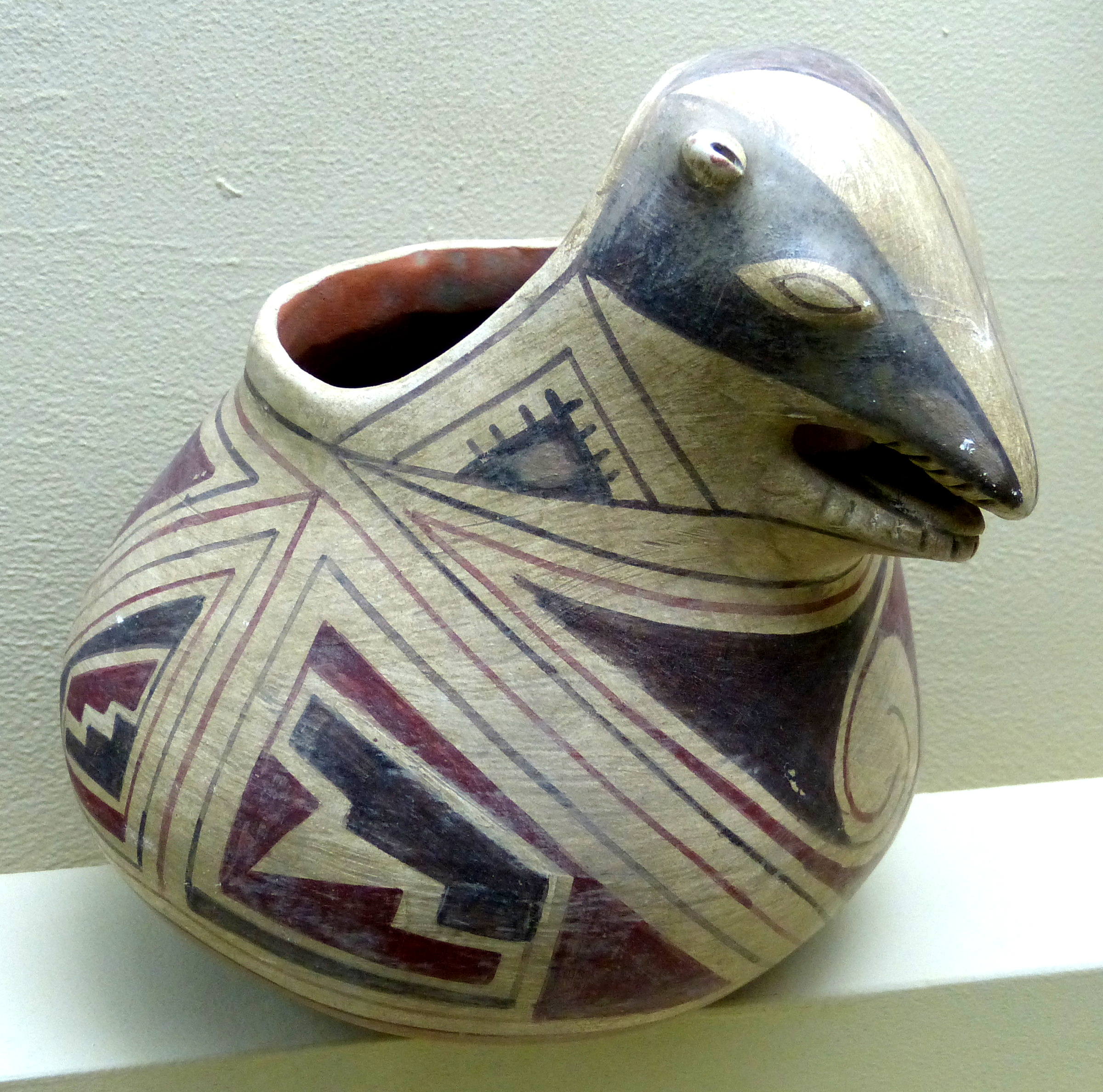 Las Palmas ( Gran Canaria ). Casa de Colon - Collection of pre-Collumbian art: Zoomorphic pot of the Casas Grandes Culture ( Mexico 1250-1520 AC )